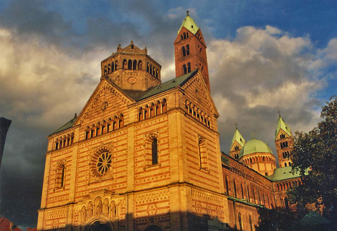 Katedra w Spayer